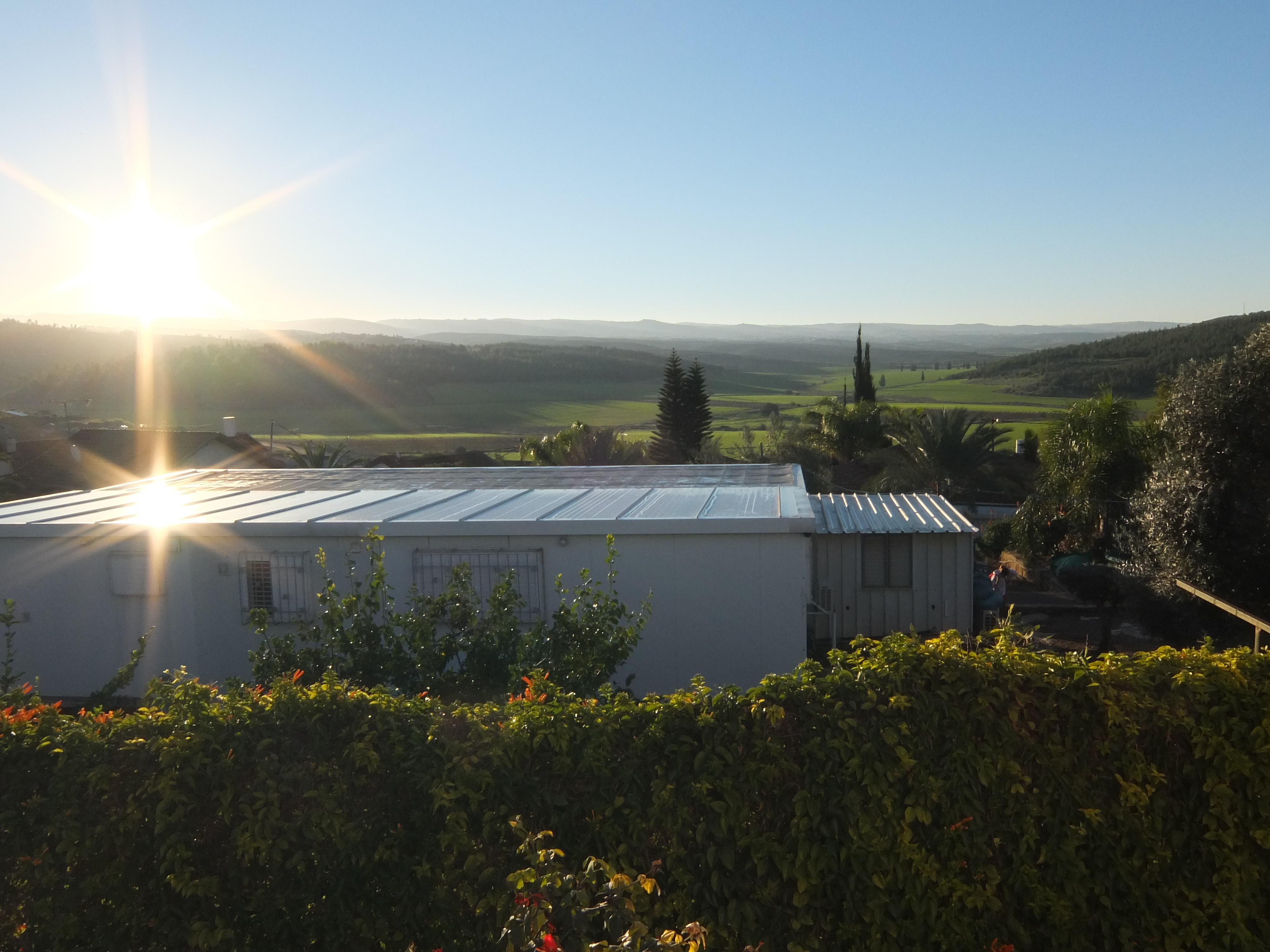 Photo of Moshav Neve Michael and Elah Valley, taken by me on December 25, 2014